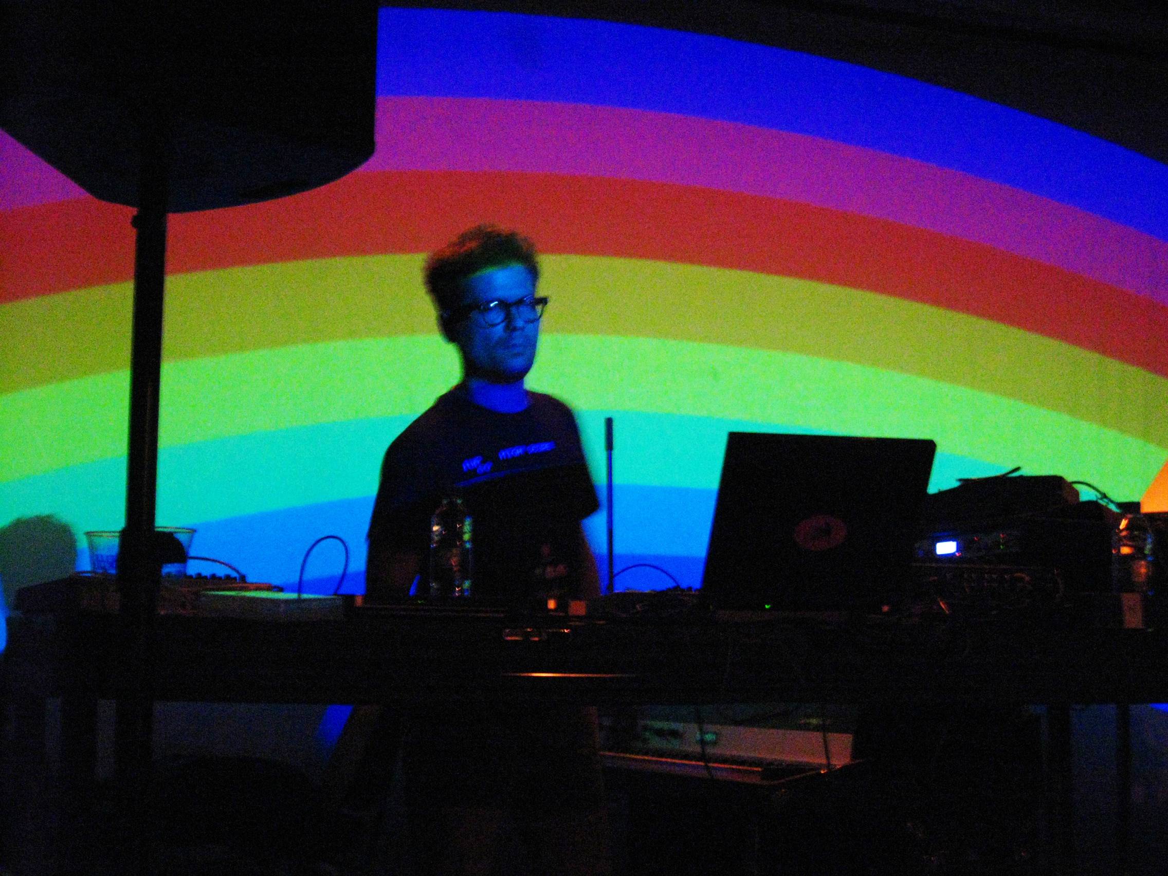 Akufen during a live performance